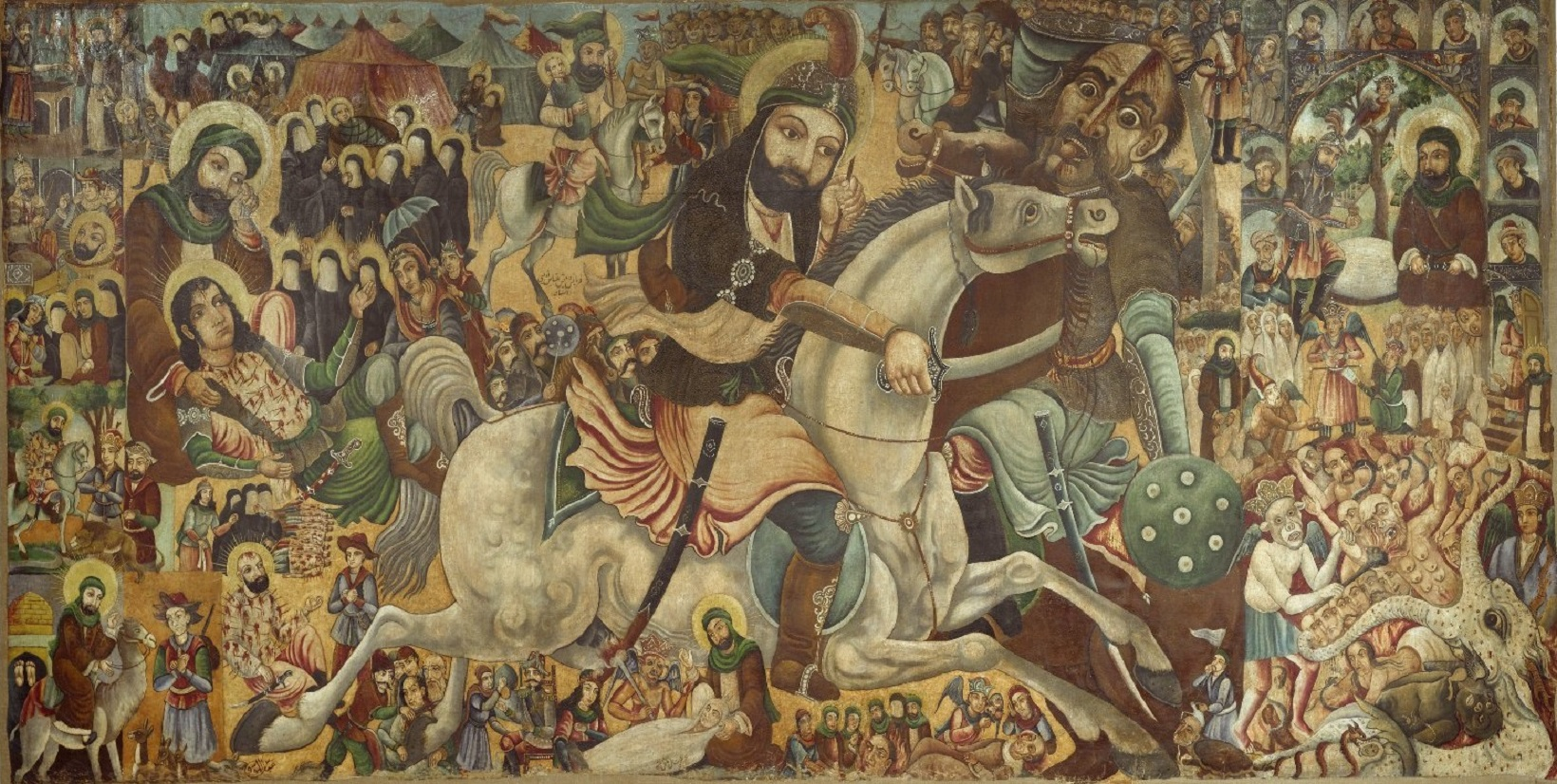 Cropped from File:Brooklyn Museum - Battle of Karbala - Abbas Al-Musavi - overall.jpg